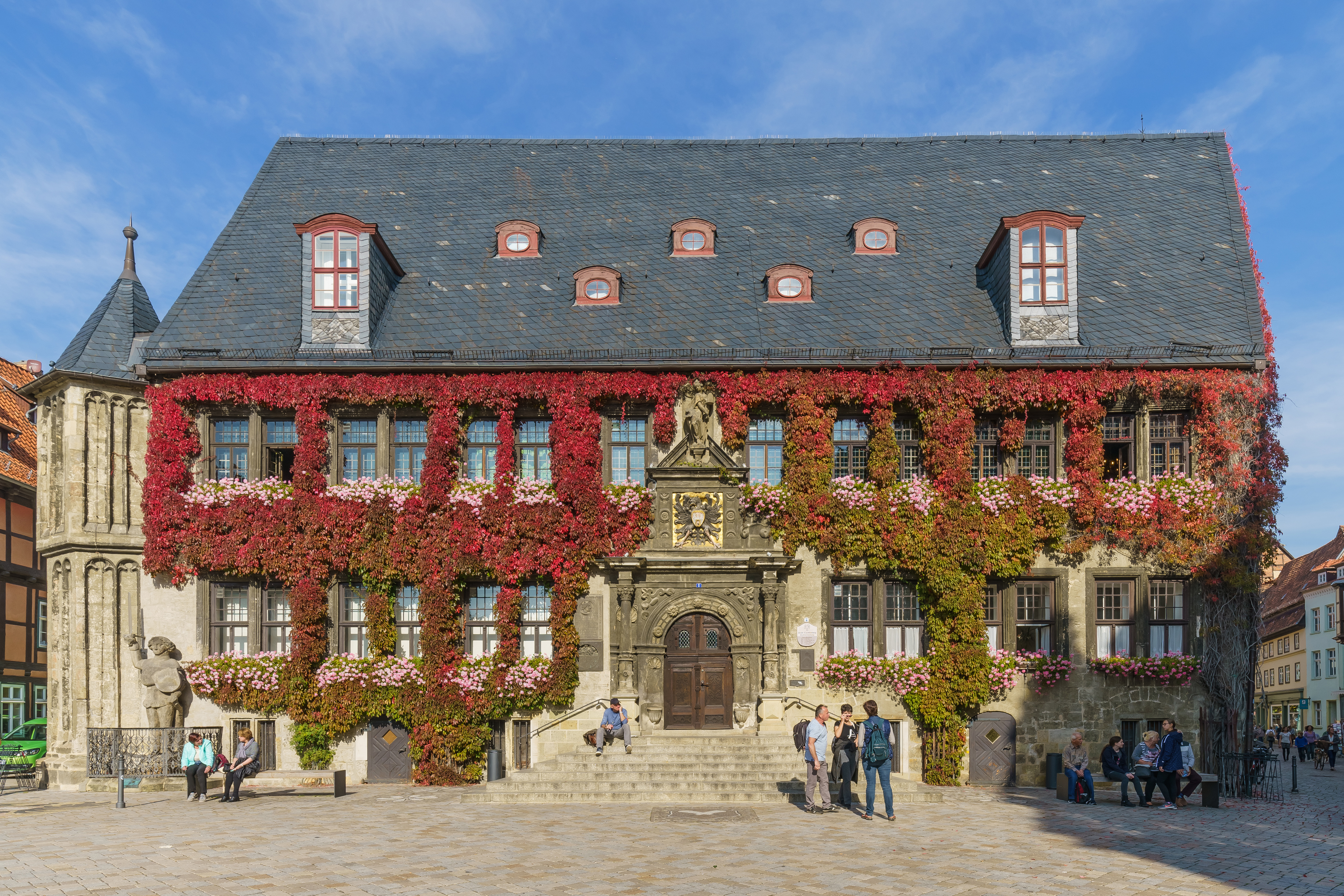 Town Hall in Quedlinburg, Germany